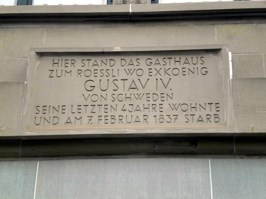 Memorial on the building at the site where King Gustav IV Adolph of Sweden died in 1837, as released by image creator Ristesson;Place: St. Gallen, Switzerland